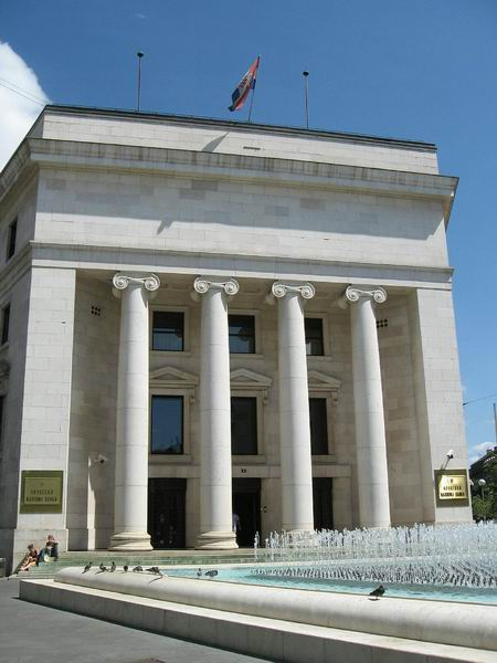 Croatian National Bank on Square Trg Burze near the city center.